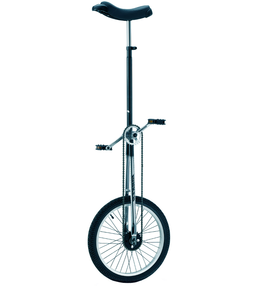 A five foot high Giraffe Unicycle made by Torker.